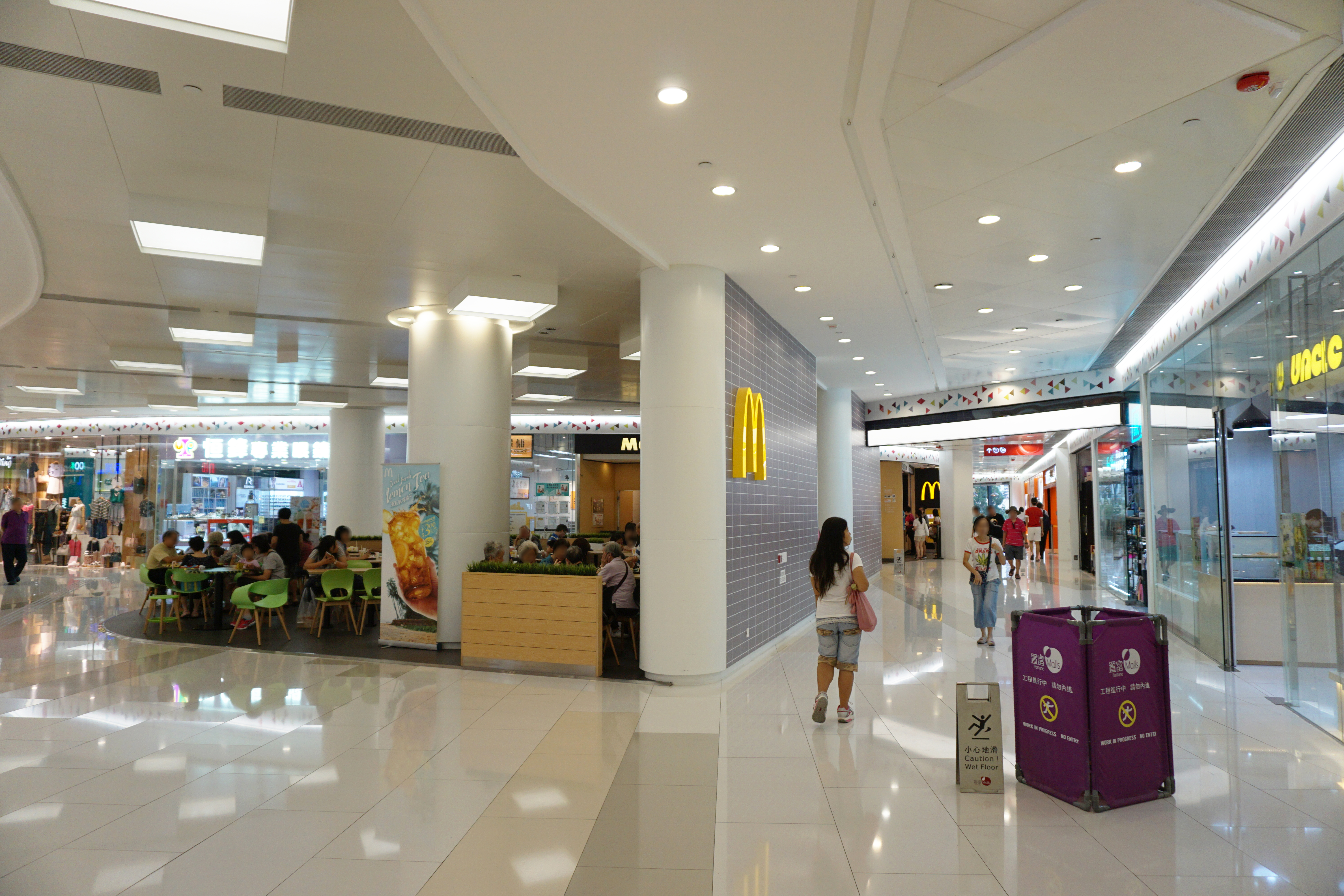 Belvedere Square in Tsuen Wan, Hong Kong.